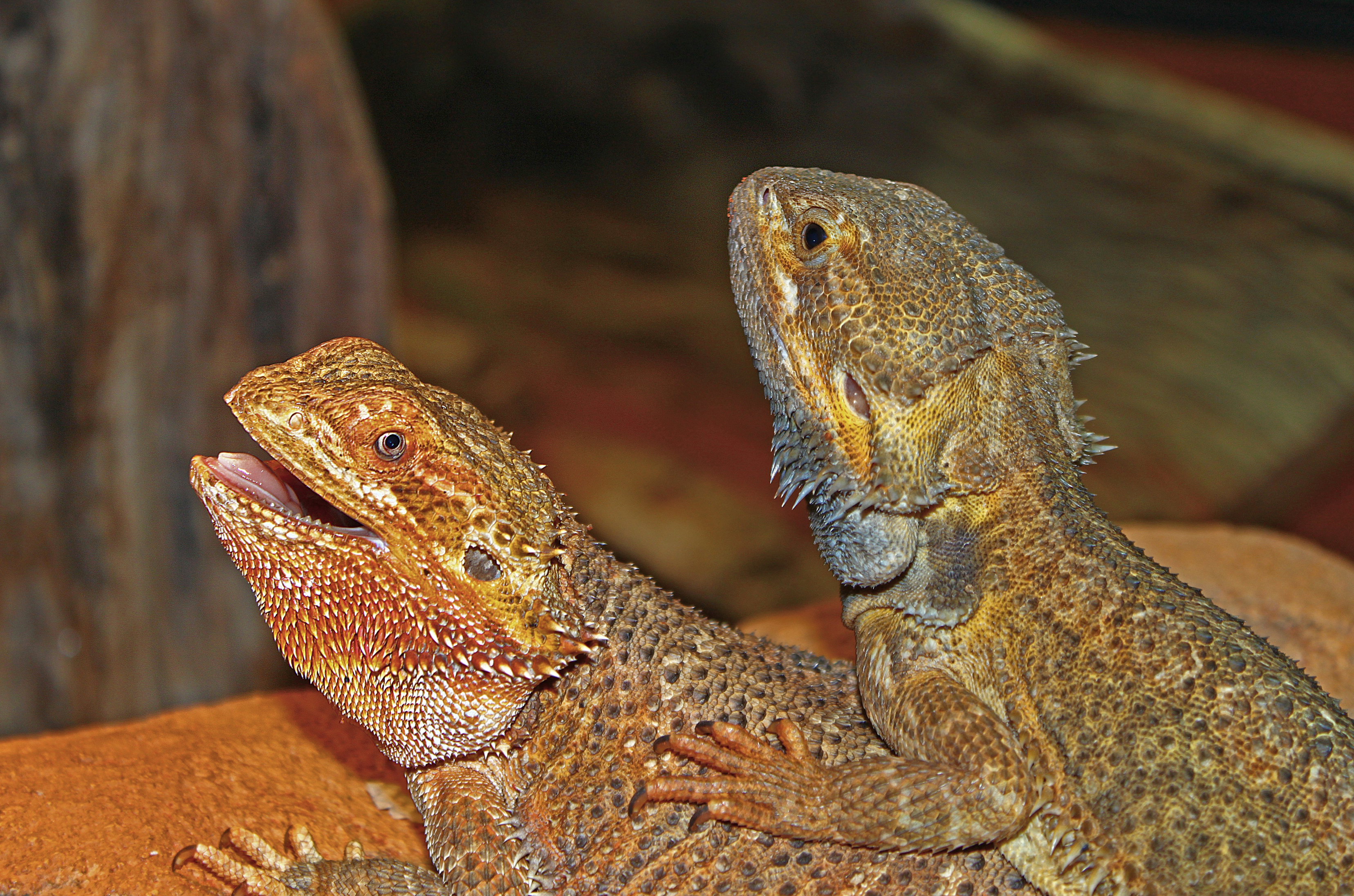 Pogona vitticeps, Agamidae, Central Bearded Dragon; Staatliches Museum für Naturkunde Karlsruhe, Germany.